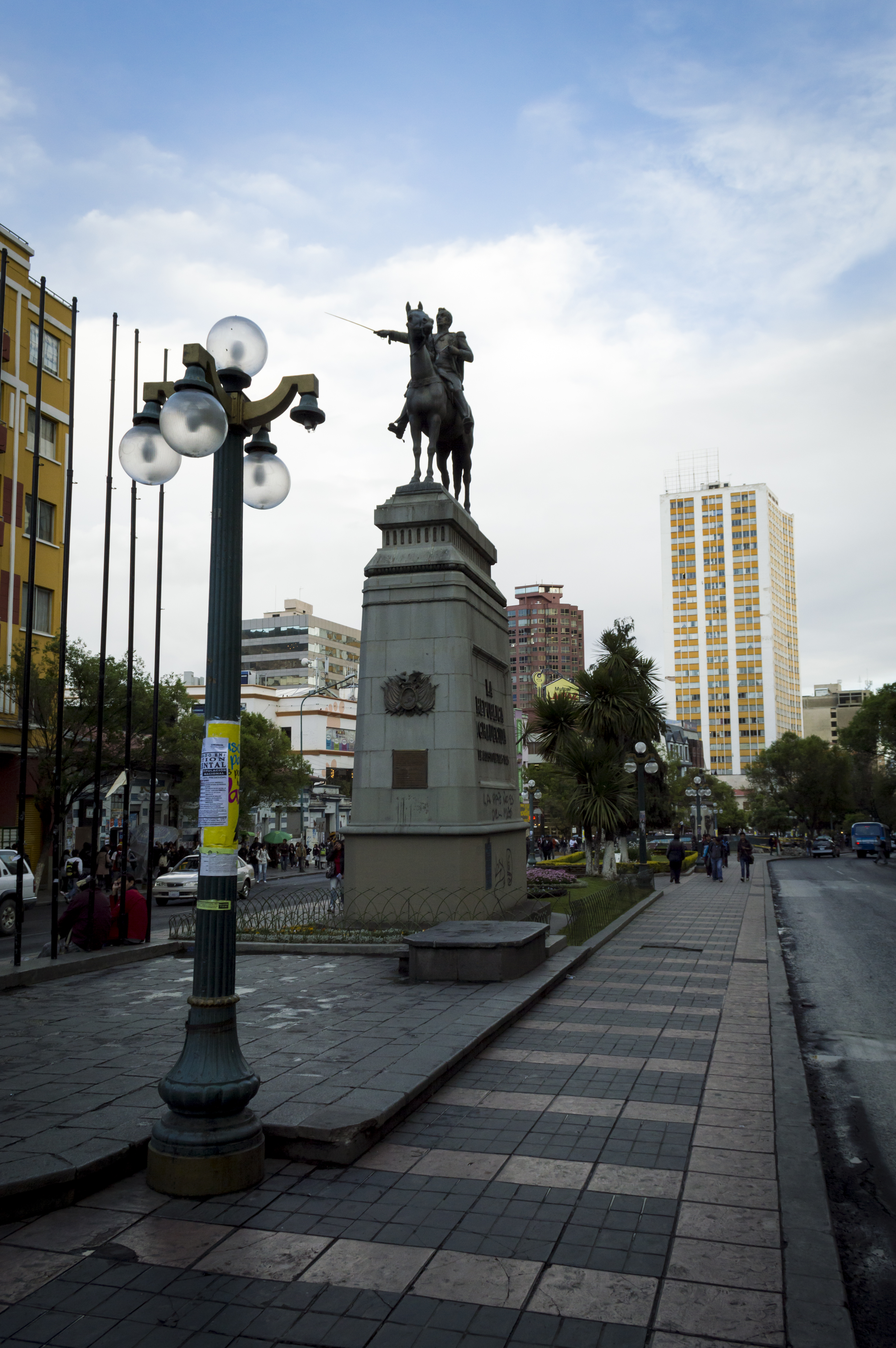 Statue of Simón Bolívar, La Paz, Bolivia.